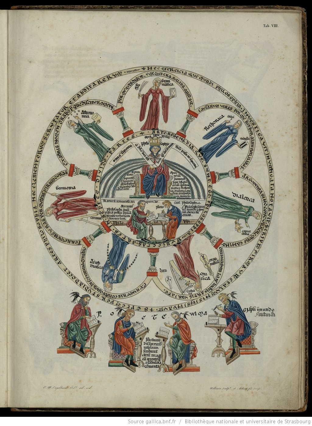 Herrad of Landsberg (c.1130 - July 25, 1195) was a 12th century Alsatian nun and abbess of Hohenburg Abbey in the Vosges mountains. She is known as the author of the pictorial encyclopedia Hortus deliciarum (The Garden of Delights). ... These illustrations are from a reproduction by Christian Maurice Engelhardt, 1818.